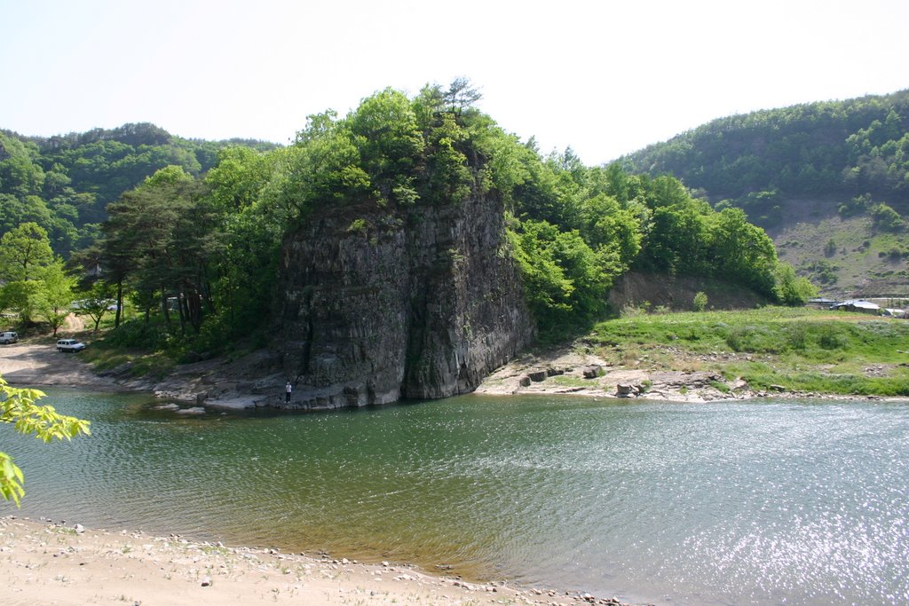 A scenry of Andong City, Gyeongsangbuk-do, South Korea